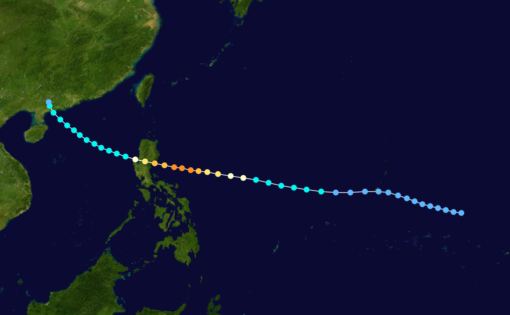 Typhoon Ira 1993 track. Uses the color scheme from the Saffir-Simpson Hurricane Scale.